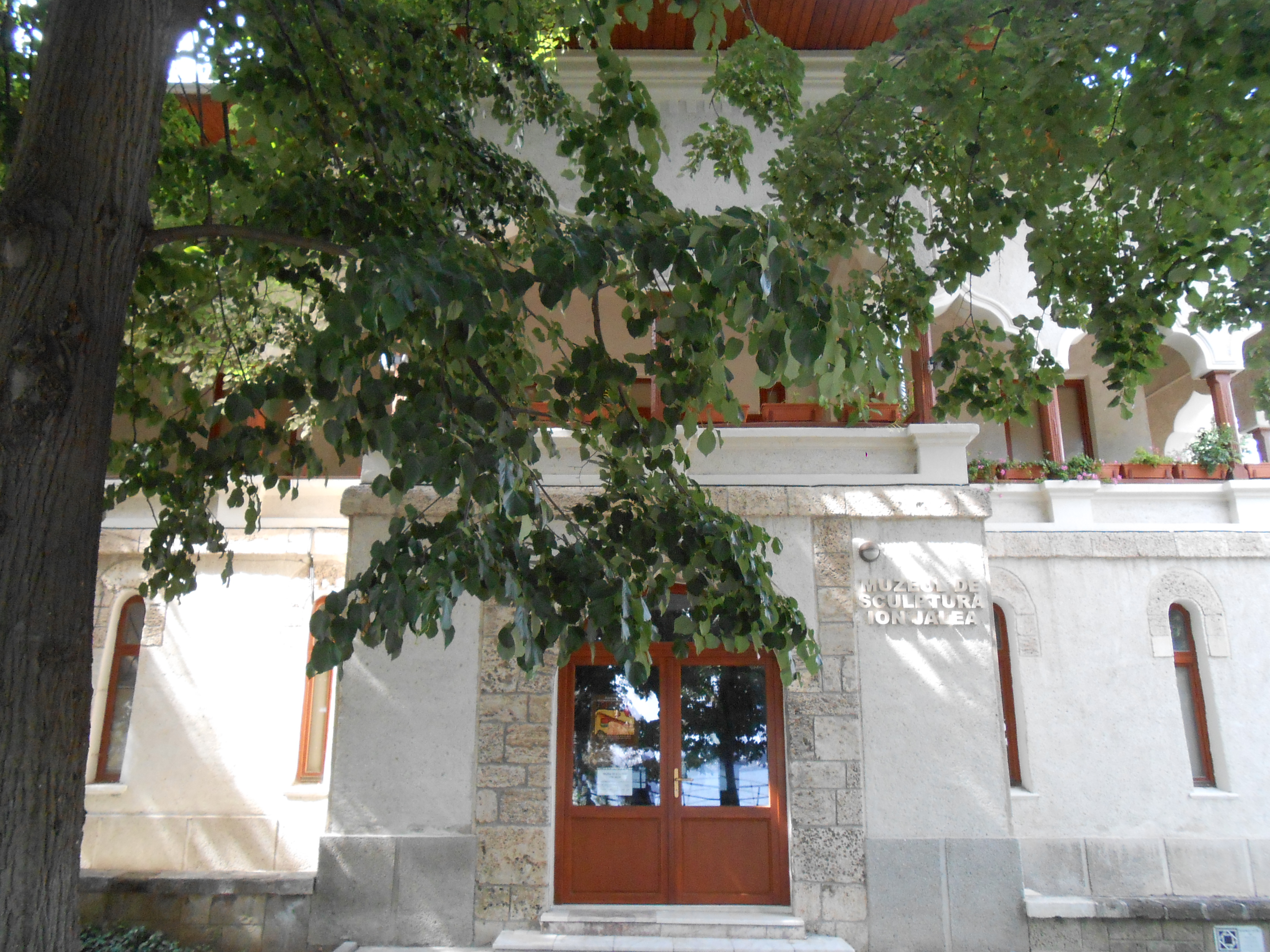 Museum "Ion Jalea”, Constanța, Romania